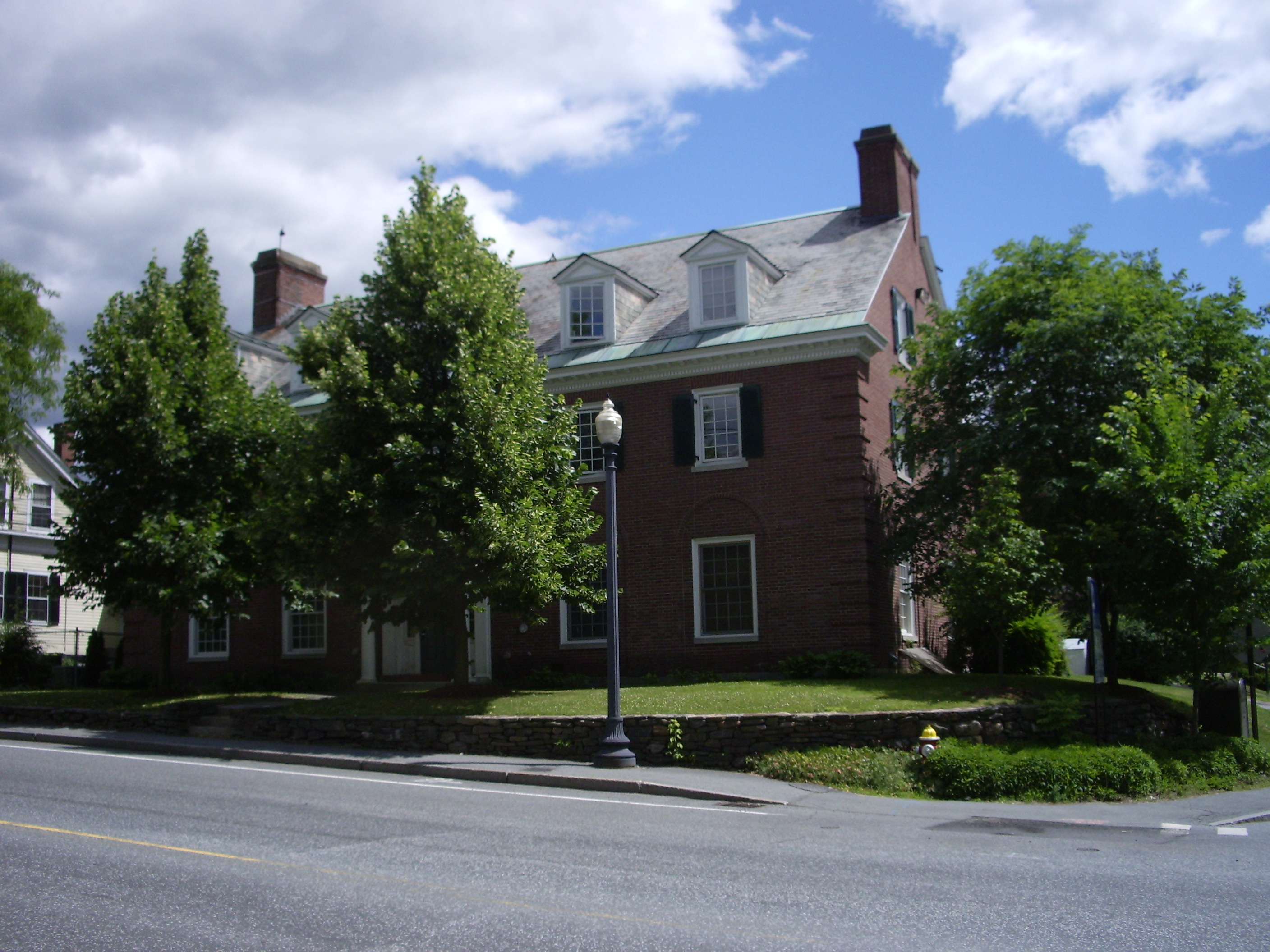 Photograph of Sigma Delta at the campus of Dartmouth College in Hanover, New Hampshire.